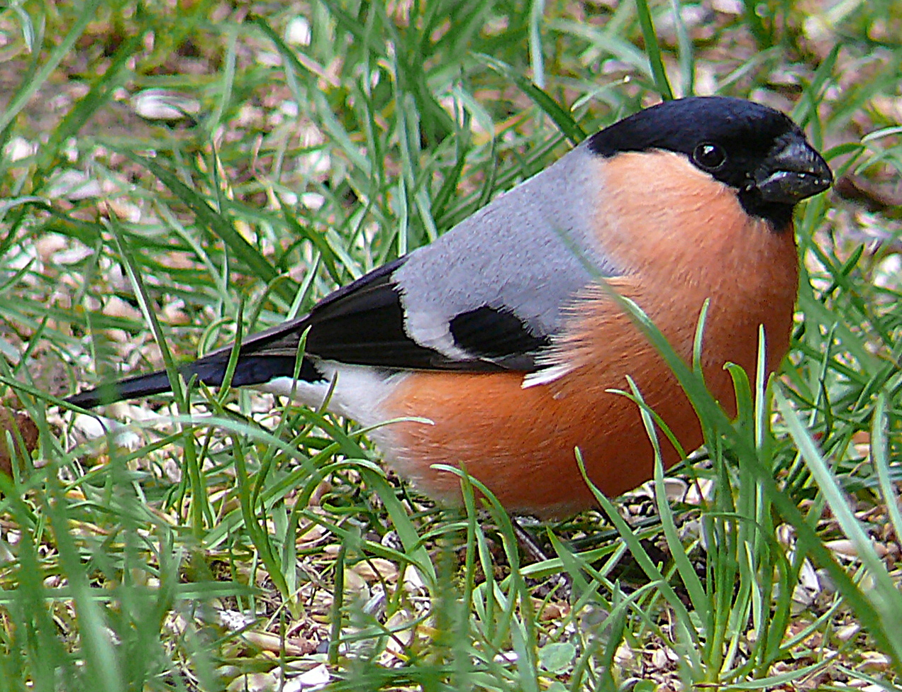 male of Pyrrhula pyrrhula